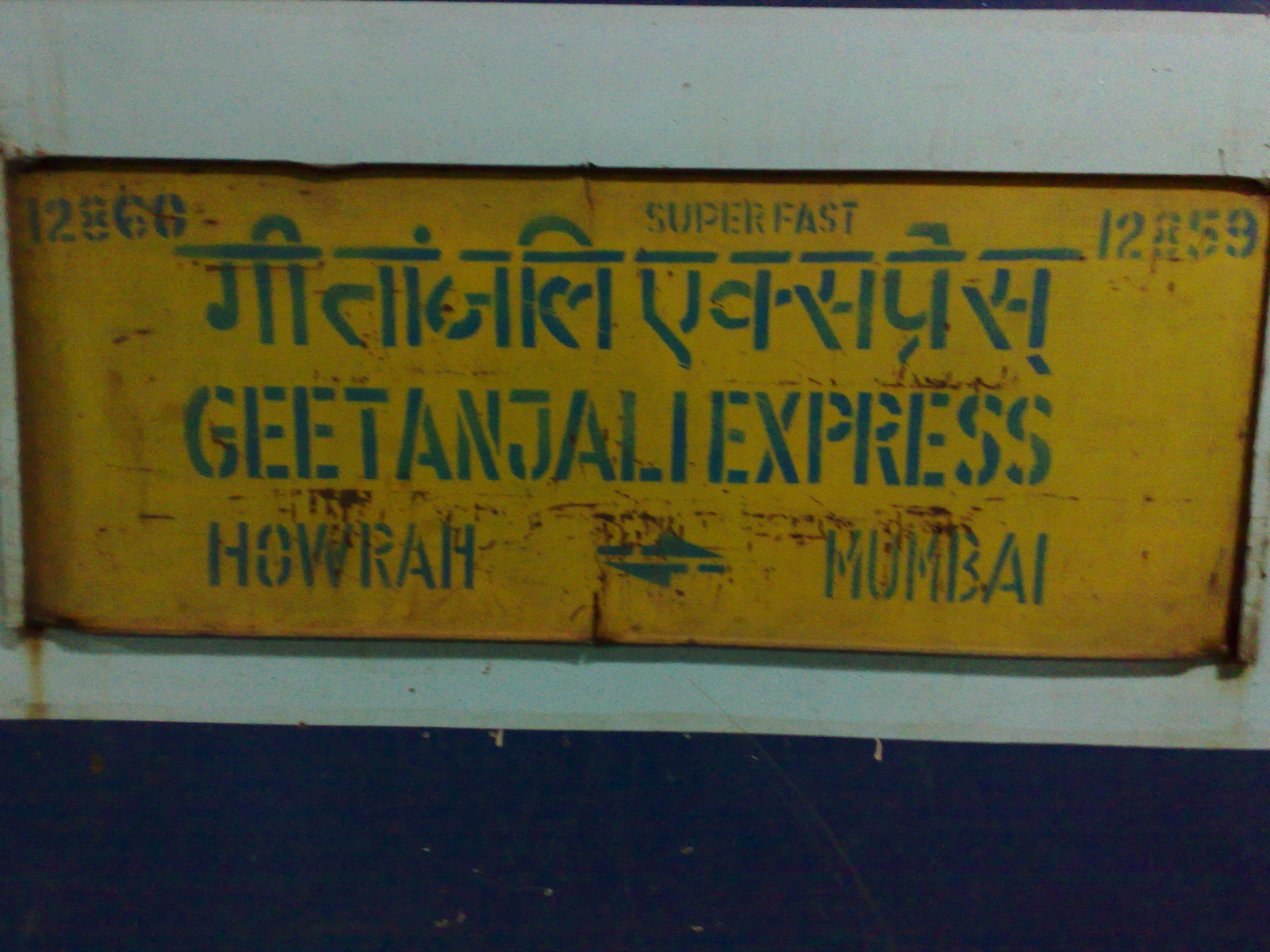 12859 Geetangali Express